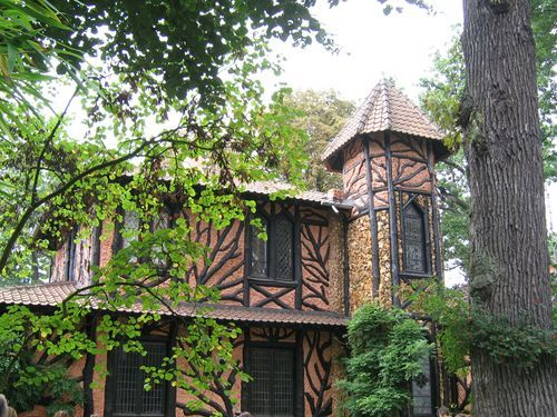 The Woodcottage. mansion.